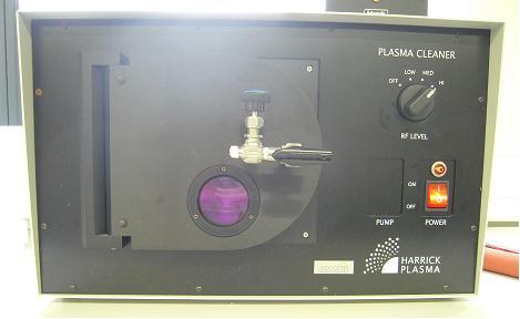 Plasma Cleaner2